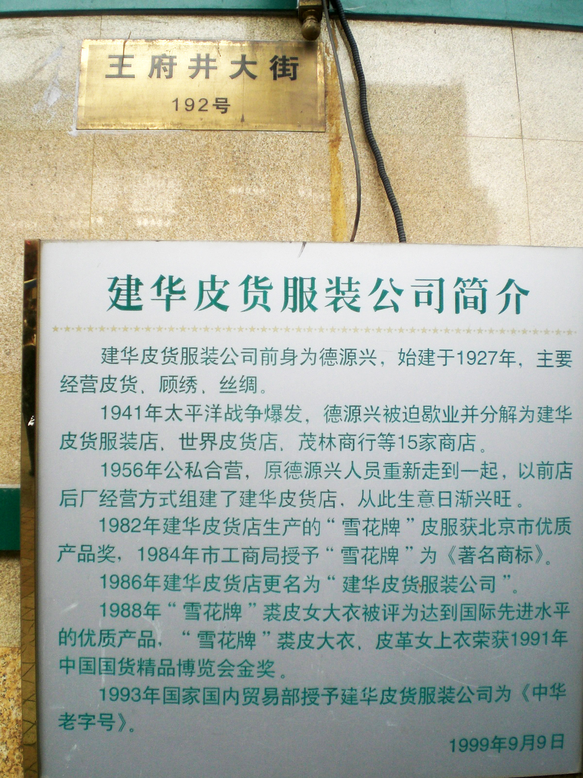 北京市東城區王府井王府井大街